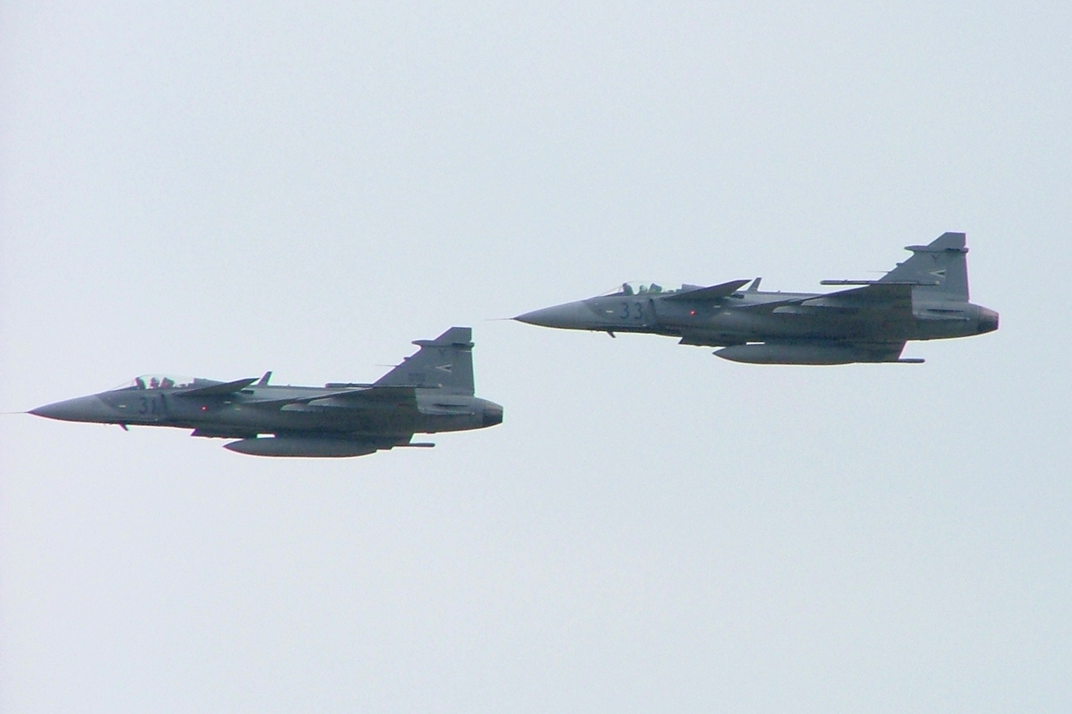 A pair of Hungarian JAS 39 Gripens at Kecskemét open day 2007.